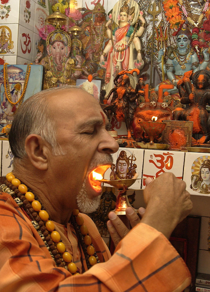 Man by a Hindu shrine, clad in holy orange clothes and with several bead necklaces, puts flame from a little lamp inside his mouth. Original caption: ' Communication for Peace" A so called sage trying to invoke and get connected with the God, by eating live fire. People come to him to communicate with the God through him, in search of Peace and to solve their problems.